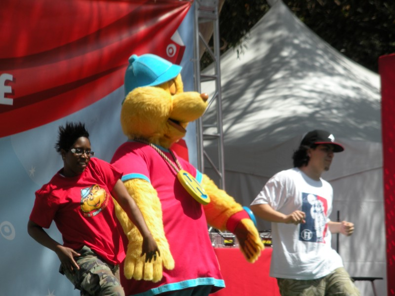 Hip Hop Harry performing on the Target stage at the Los Angeles Times Festival of Books, UCLA, Los Angeles CA.